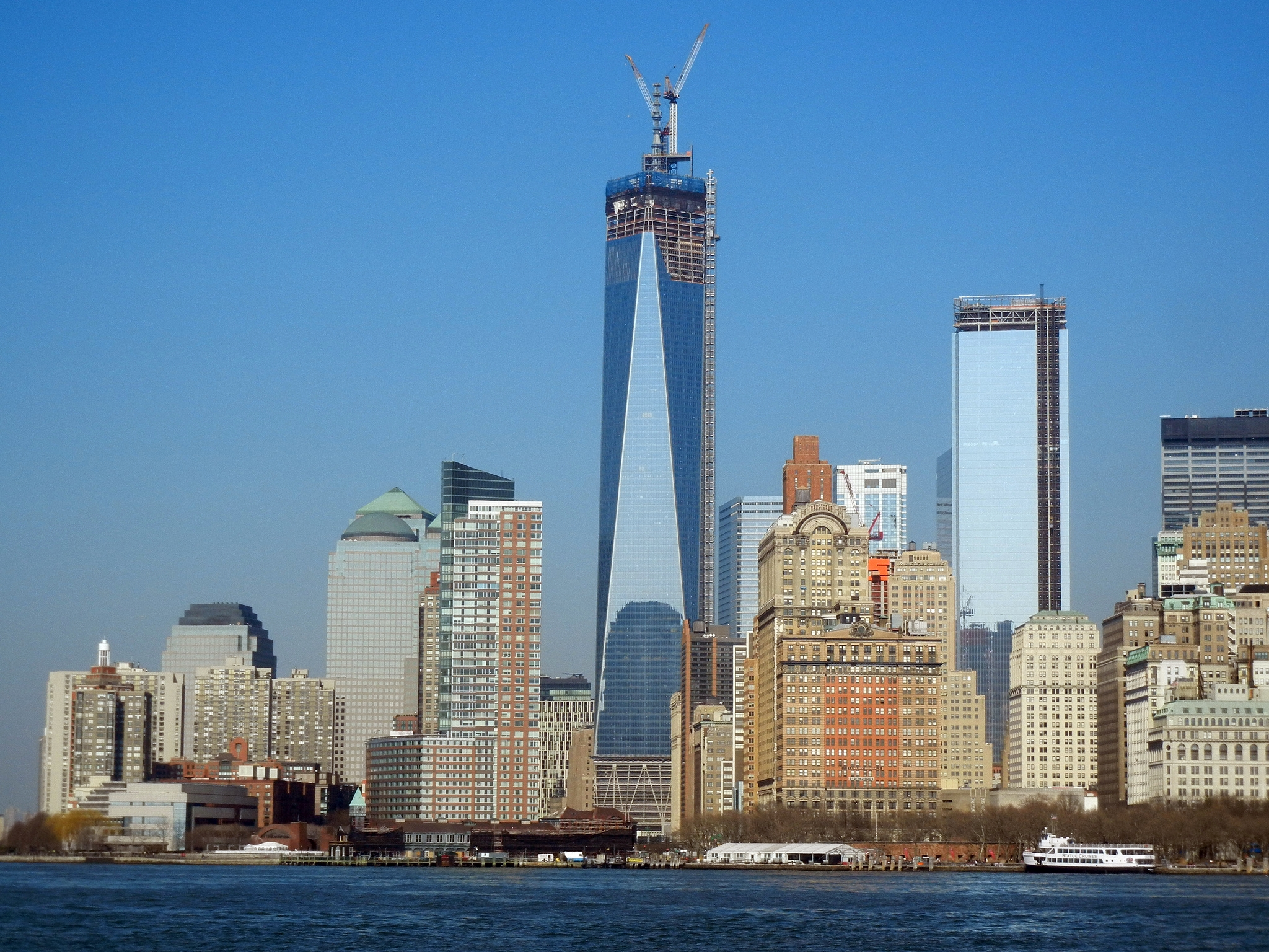 Skyline of New York with One WTC